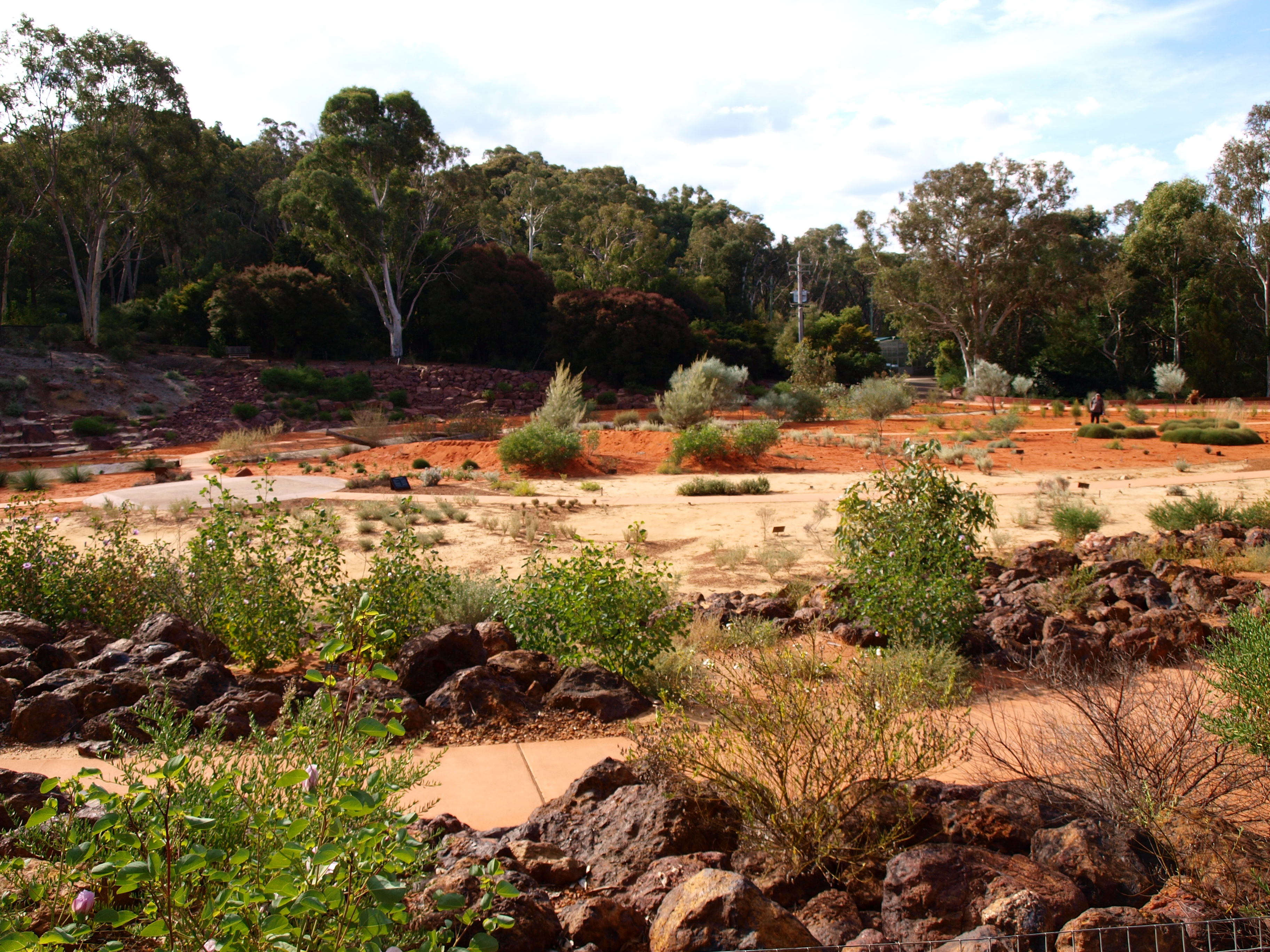 Australian National Botanic Gardens